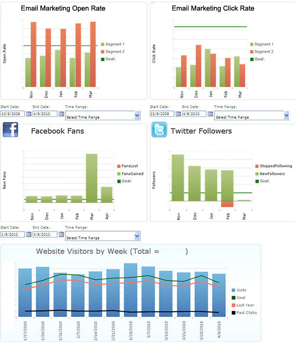 SharePoint dashboards aggregate data from a variety of sources for and graphically display it in a central location.